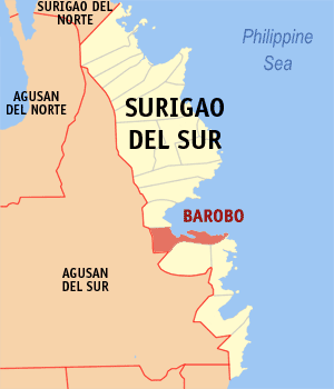 Map of the Surigao del Sur showing the location of Barobo